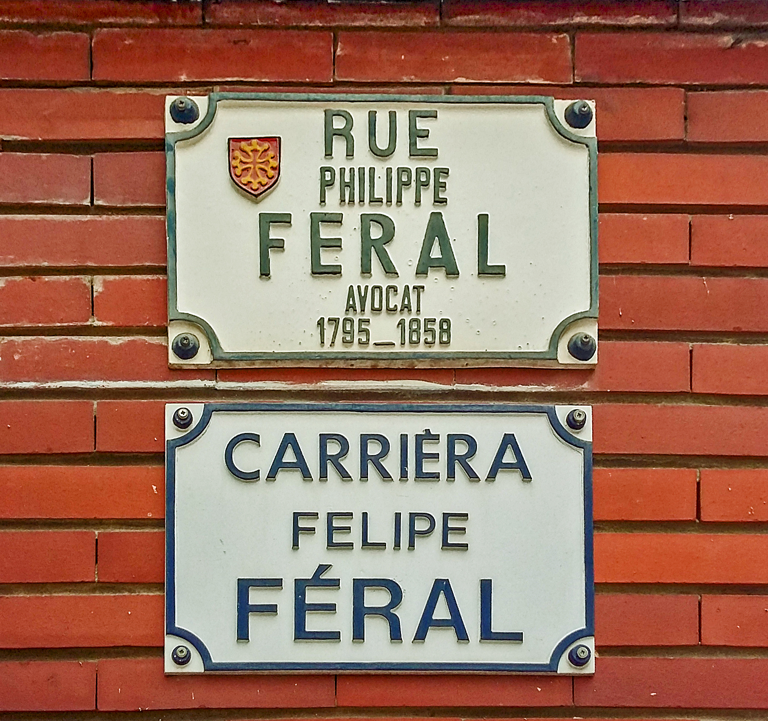 Rue Philippe-Féral, in Toulouse - Street name sign. They have the particularity of being: in French and Occitan.